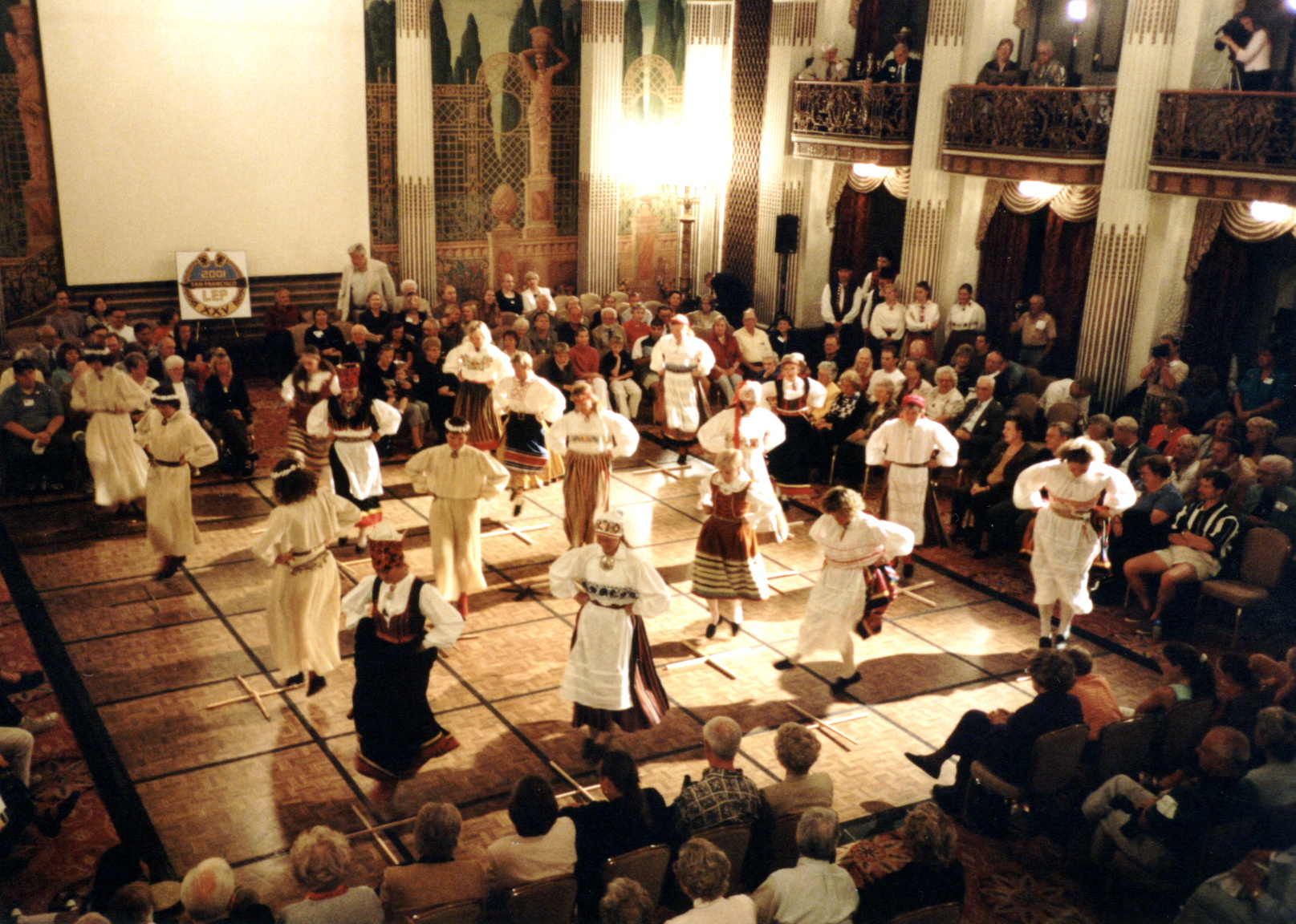 Dancing at the Estonian Cultural Festival XXV West Coast Estonian Days in San Francisco,[1] 30 July 2001 – 4 July 2001.[2] The author of the (de minimis) event emblem is Gunnar Ellam.[1]